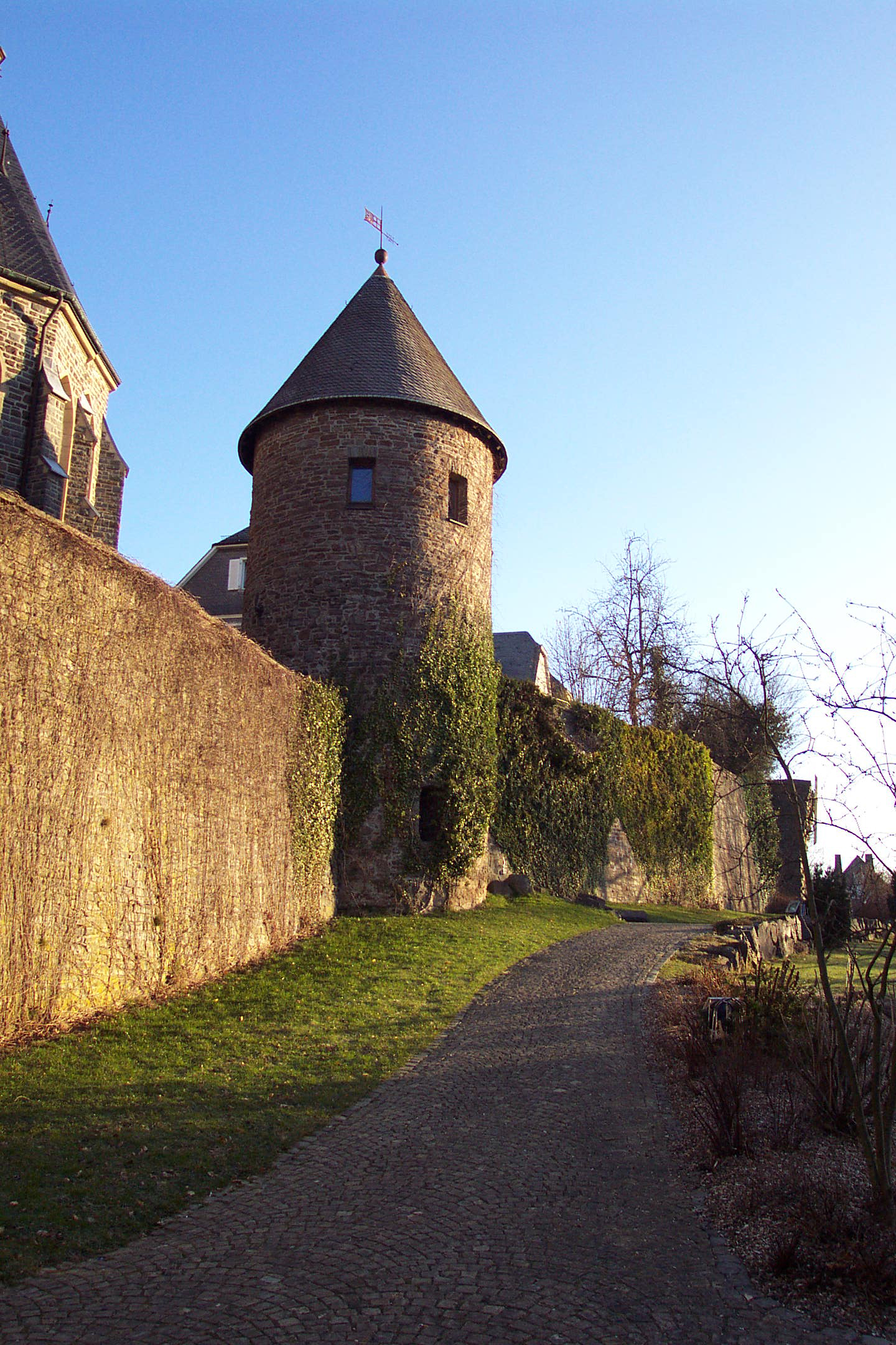 Part of the old city wall that once protected Olpe can still be seen. Two of its towers are still standing.